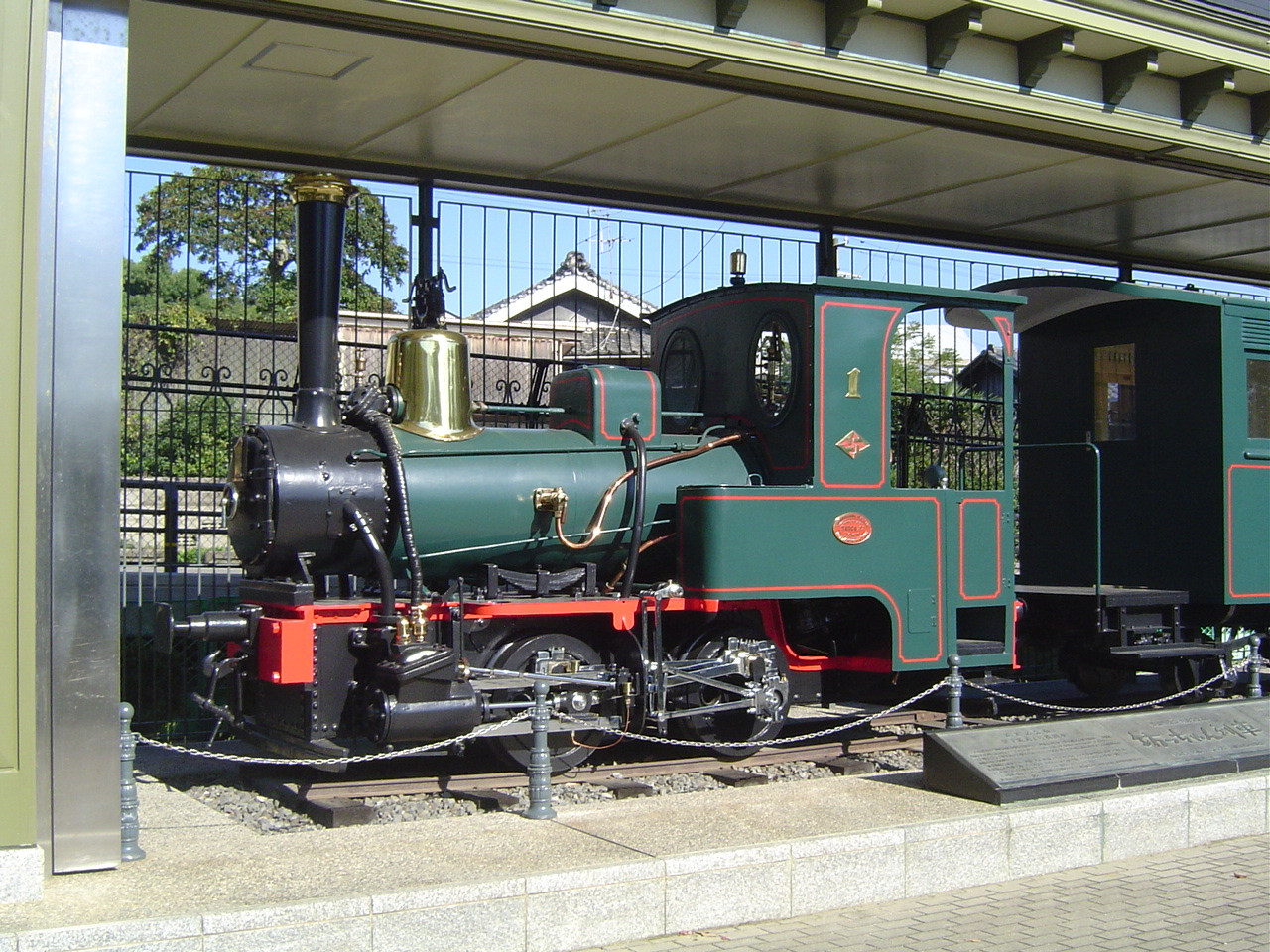 Iyo-Railway No.1 steam locomothive (Original). The photo was taken in Baishinji-Park (Ehime)